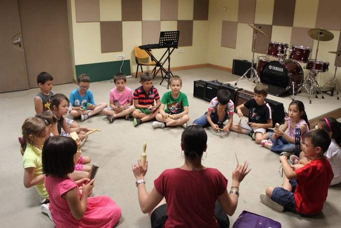 NOVA International Schools After school activities and clubs